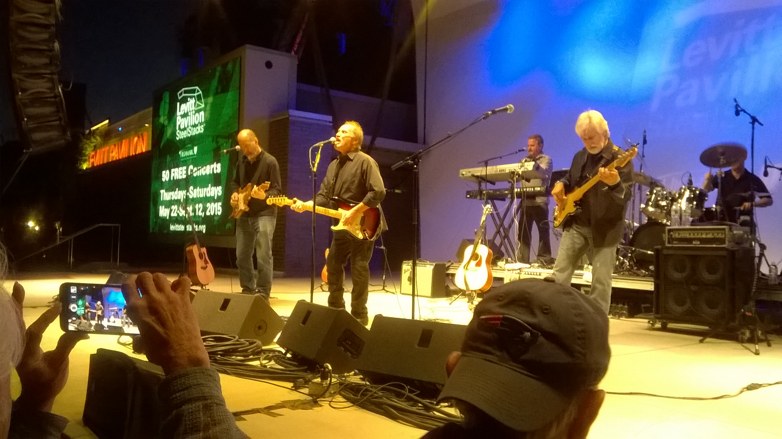 The band Orleans performs at Levitt SteelStacks in Bethlehem, PA.